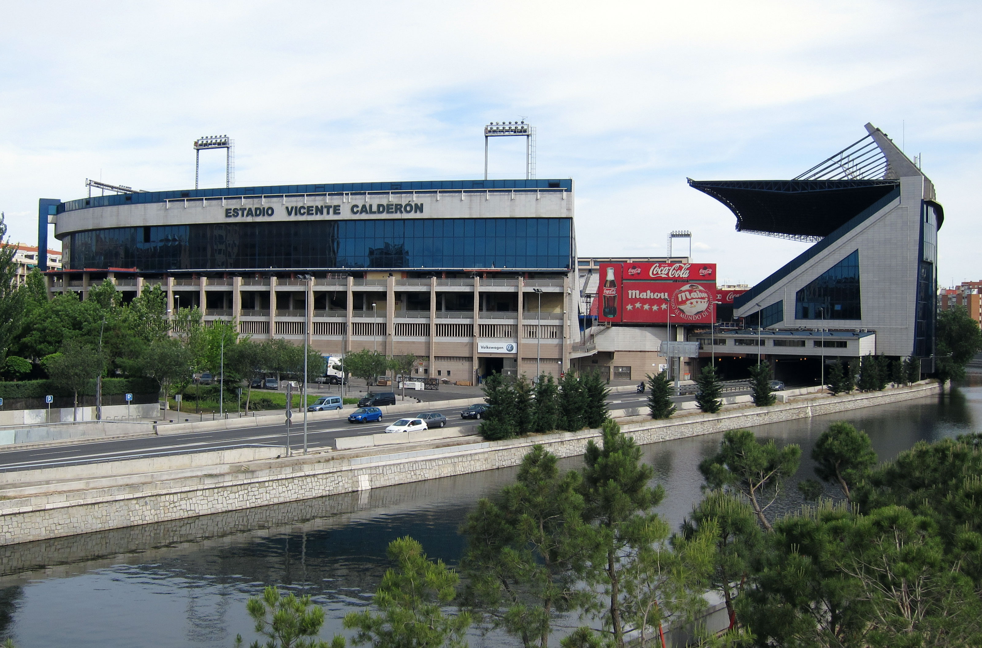 Vicente Calderón Stadium, Atlético de Madrid football ground